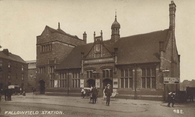 Postcard of Fallowfield Railway Station in Manchester, pictured in 1910